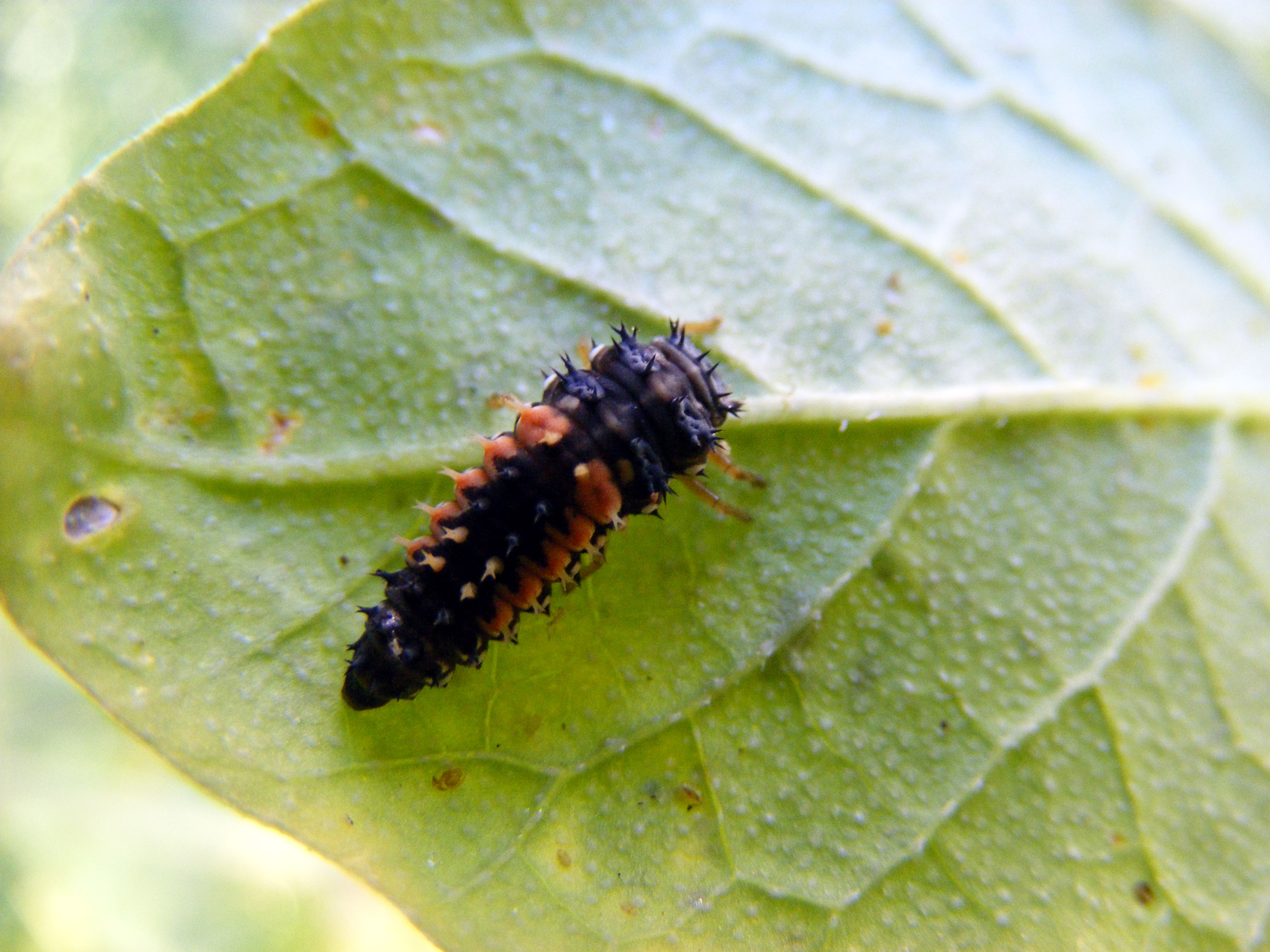 Super Micro image of the Larvae of a Ladybug on the back of a watermelon leaf.